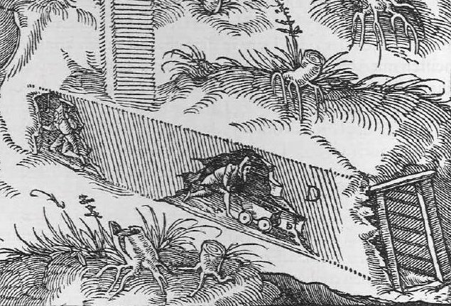 Picture of a mining trolley, from Georg Agricola in De re metallica 1556